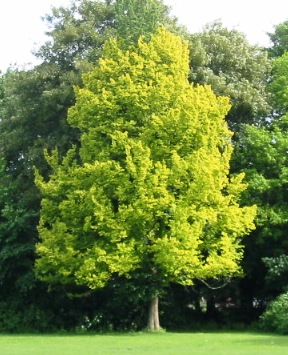 Ulmus hollandica 'Wredei' in the stadspark groningen; Photo taken by Ronnie Nijboer